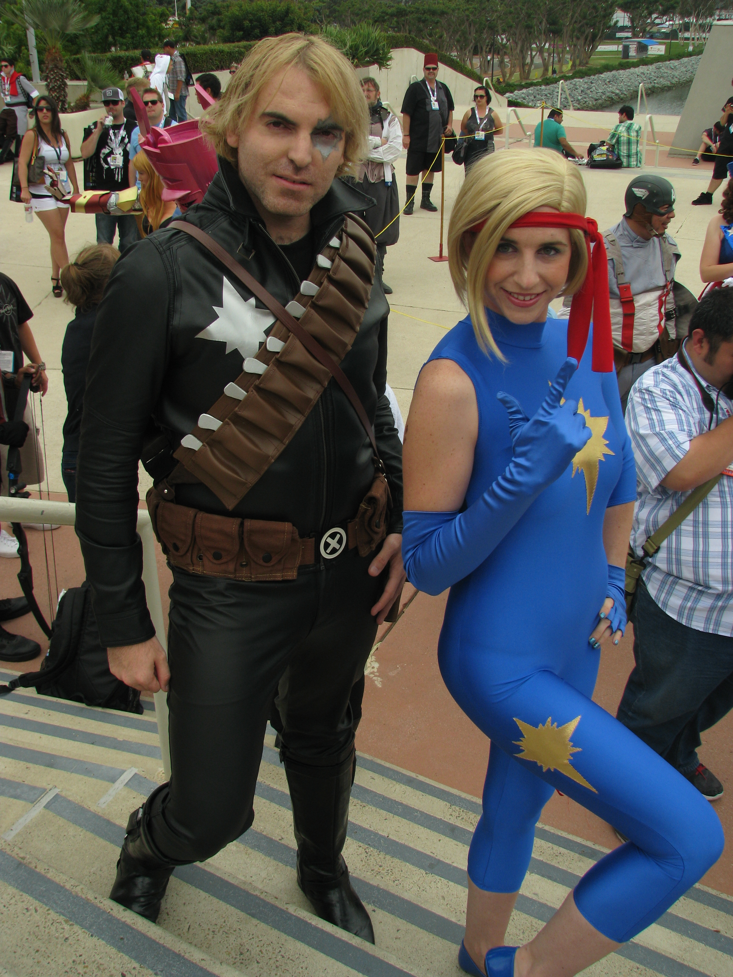 A cosplay of Longshot [left] and Dazzler [right] from X-Men